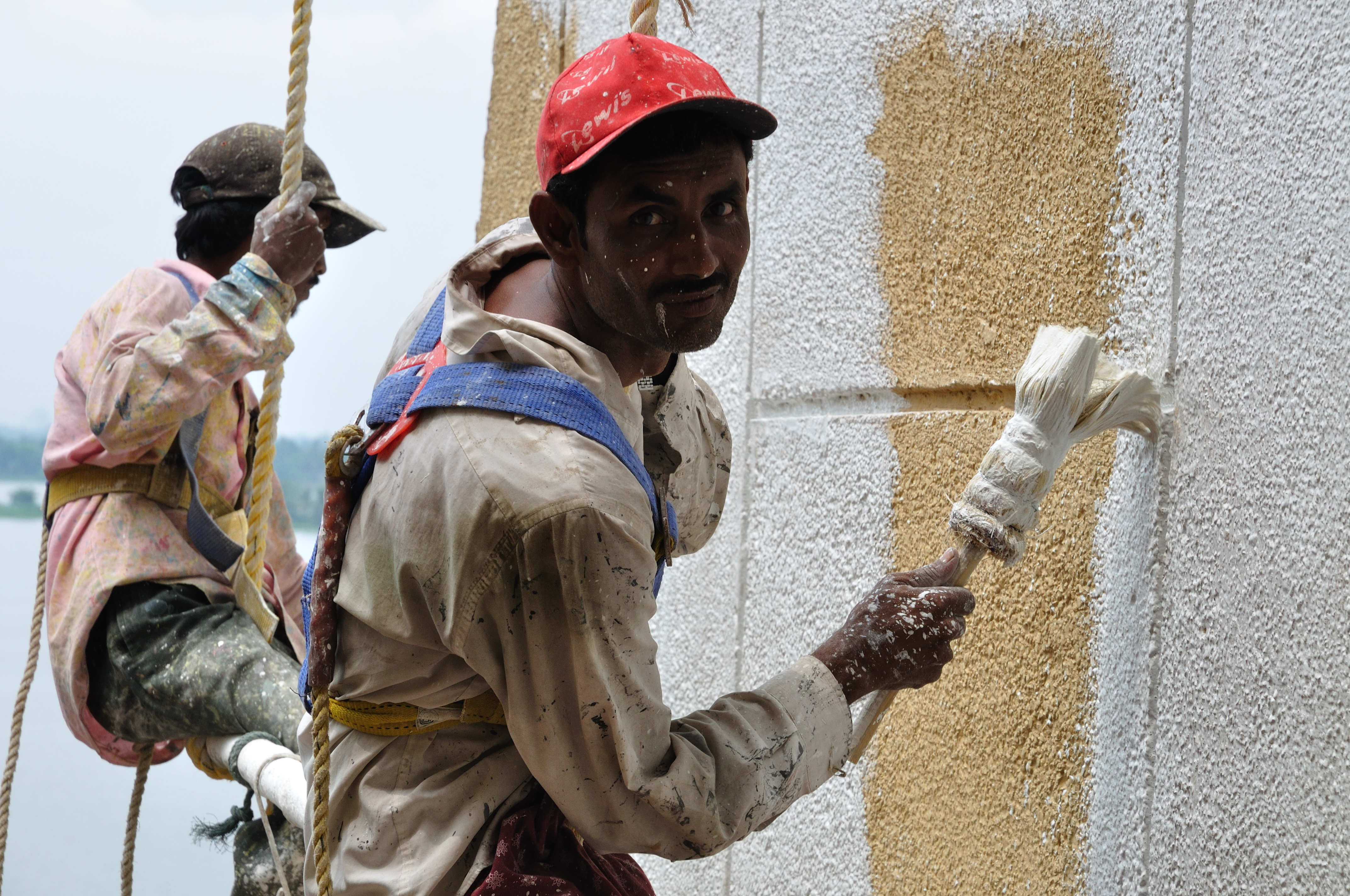 Building painters are working at above 80 feet hight to a 9 storied tall building at Kolkata by indigenous process using bamboos and nylon ropes.